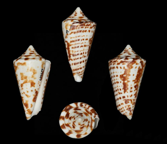 Conus recurvus Broderip, 1833; family Conidae; holotype of the synonym Conus gradatus thaanumi Schwengel, 1955 in the Smithsonian Institution